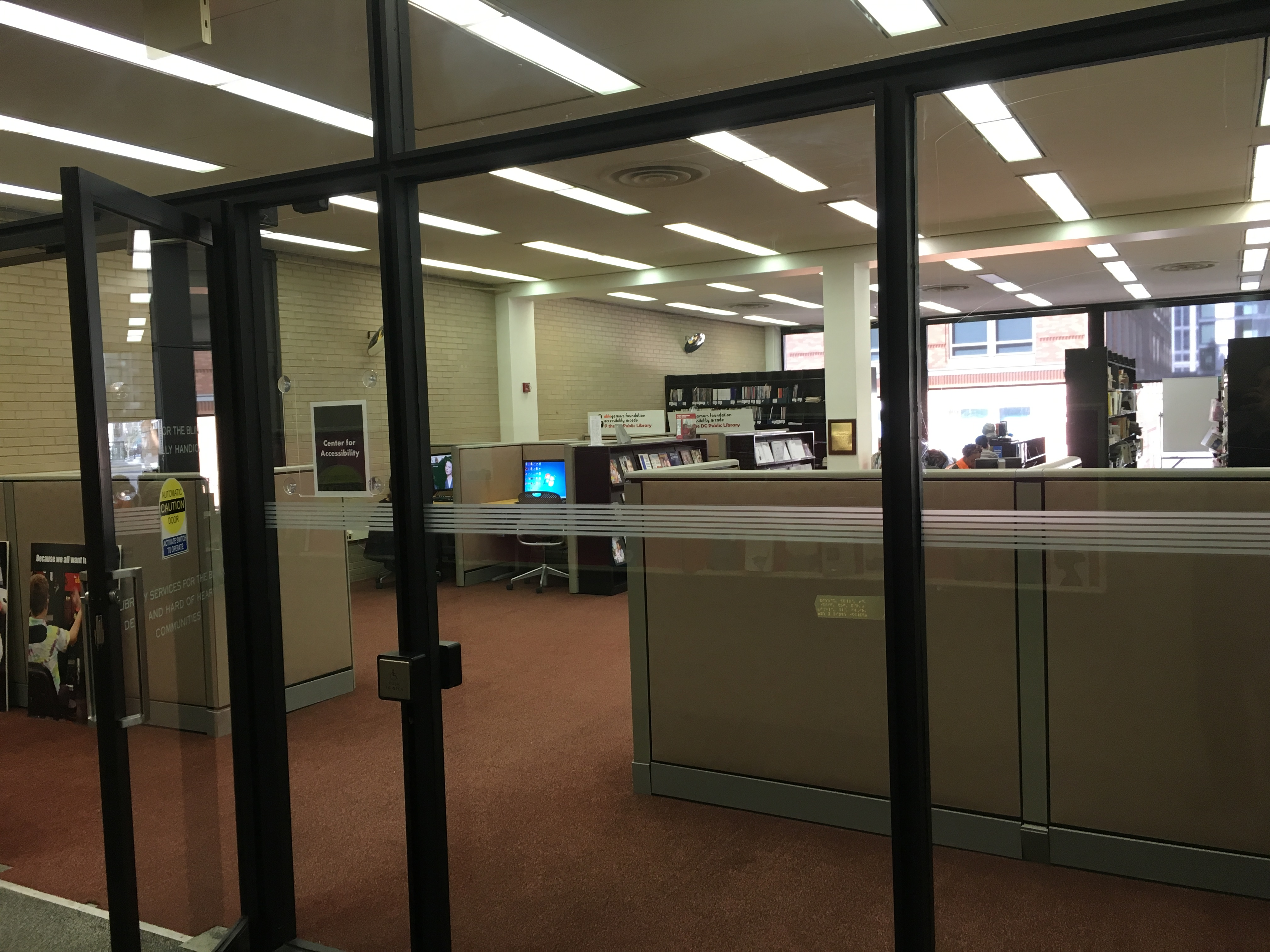 DC library Center for Accessibility